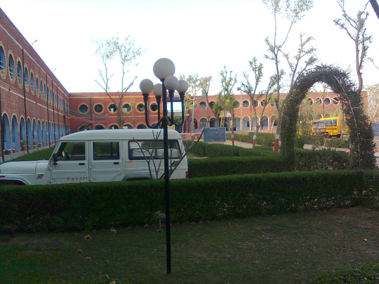 School campus. Arya Senior Secondary School is a secondary school in Jhojhu Kalan, Haryana, India